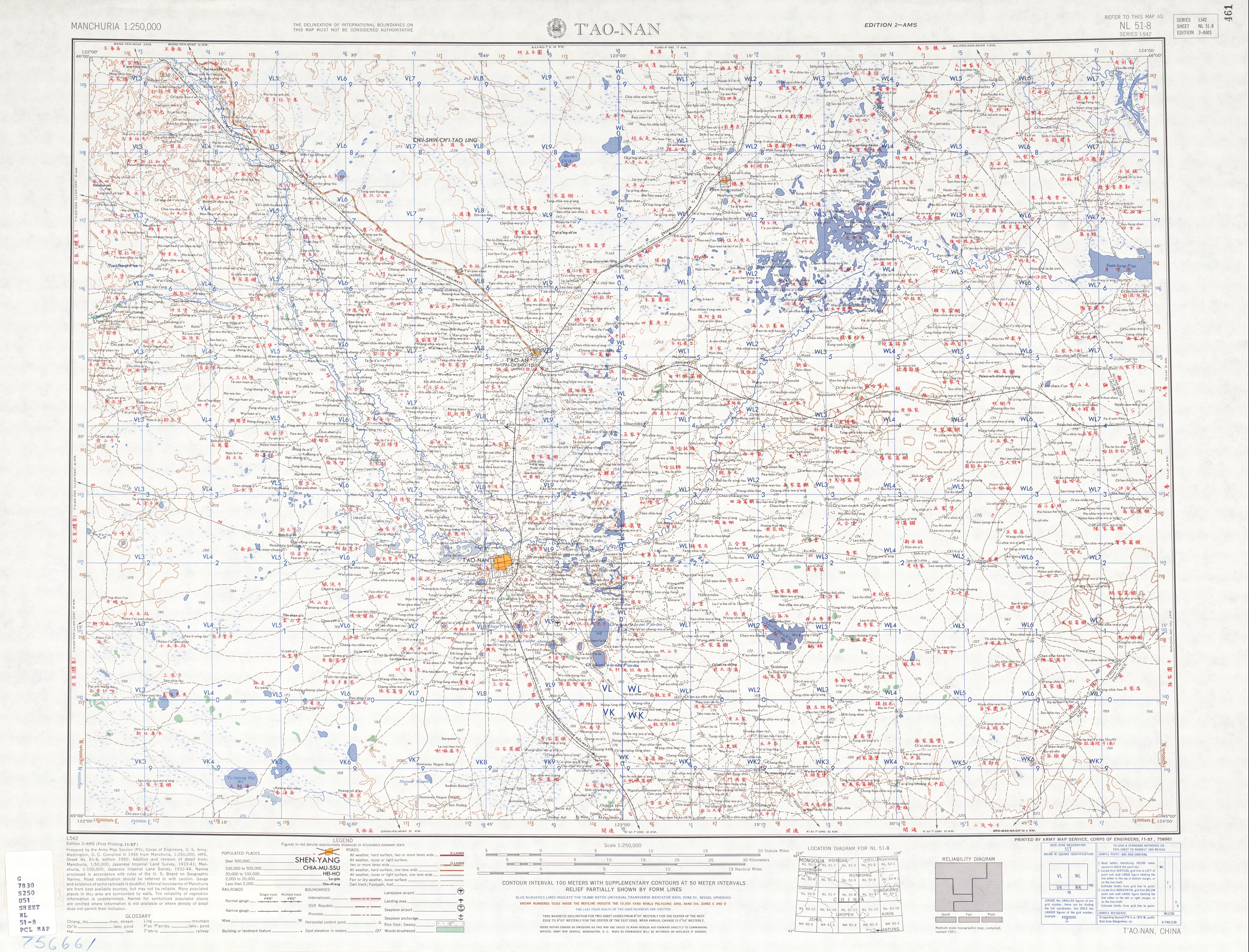 Manchuria AMS Topographic Maps